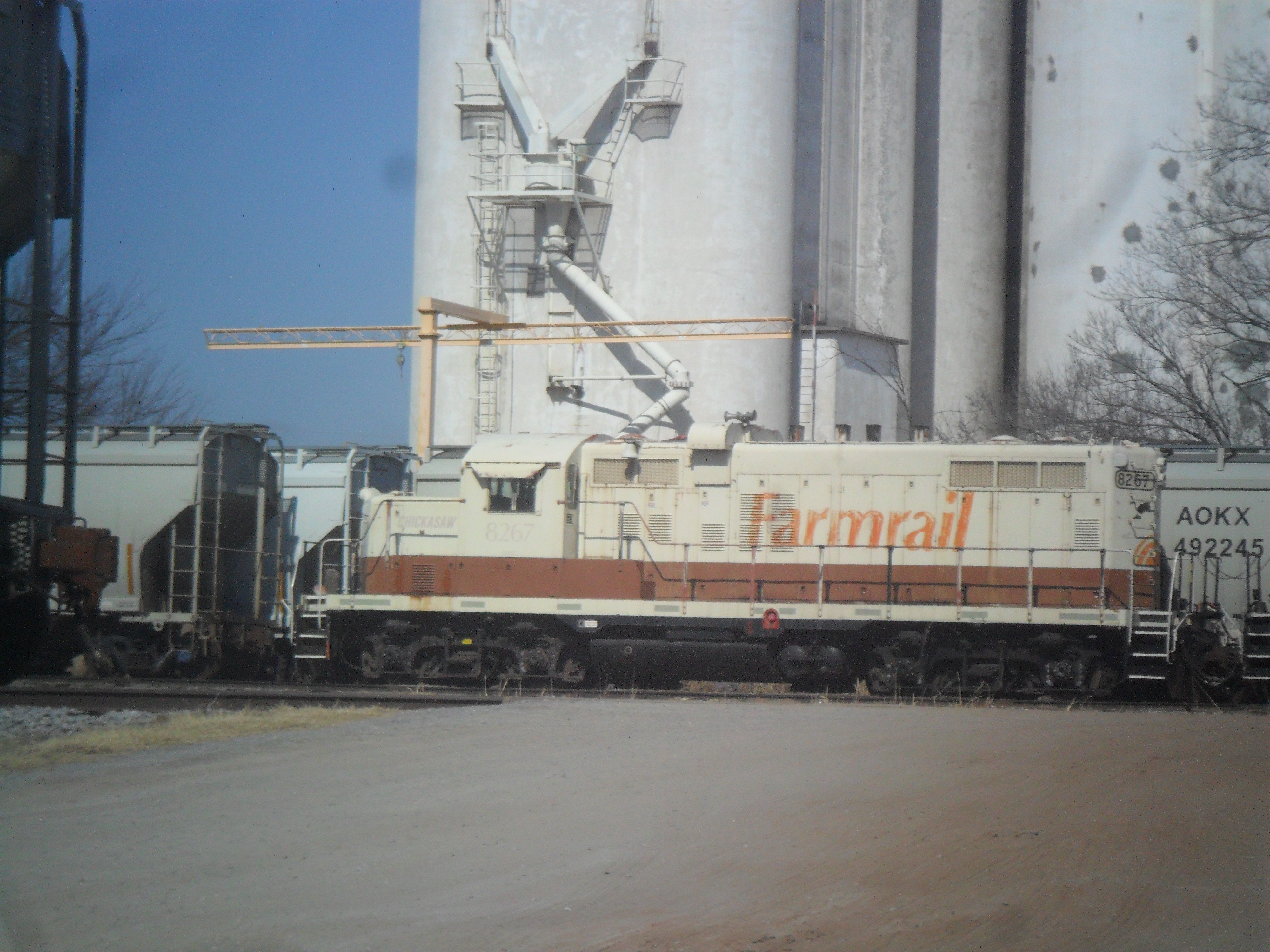 Farmrail 8267, an EMD GP10, sits idle in Weatherford, Oklahoma. Built as Southern Pacific 5700 in 1956.